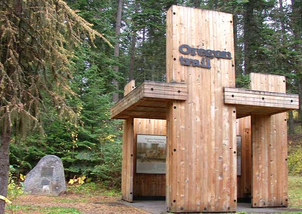 Emigrant Springs State Park in eastern Oregon, showing the location of the Oregon Trail commemoration by Warren G. Harding on July 3, 1923 (taken Oct. 20, 2004) © 2004 Matthew Trump